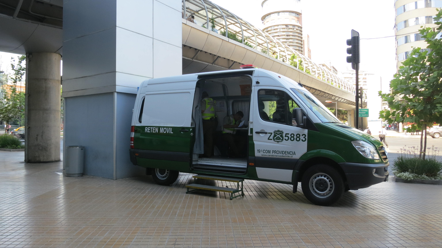 Carbineros of the 19th Comisaría Providencia work out of a Mercedes-Benz Sprinter based mobile command station in the Los Condes neighborhood of Santiago.